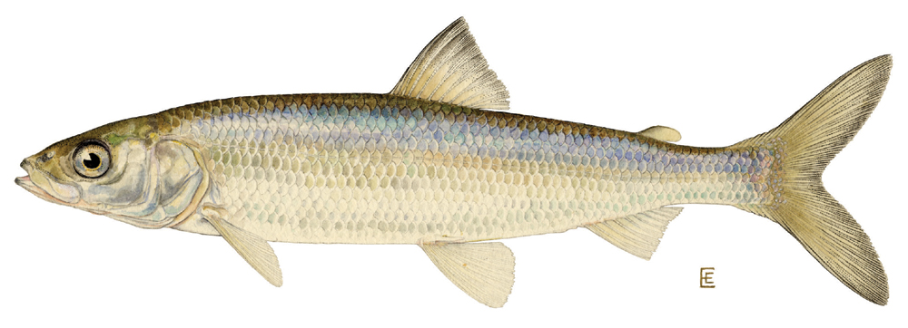 Coregonus artedi